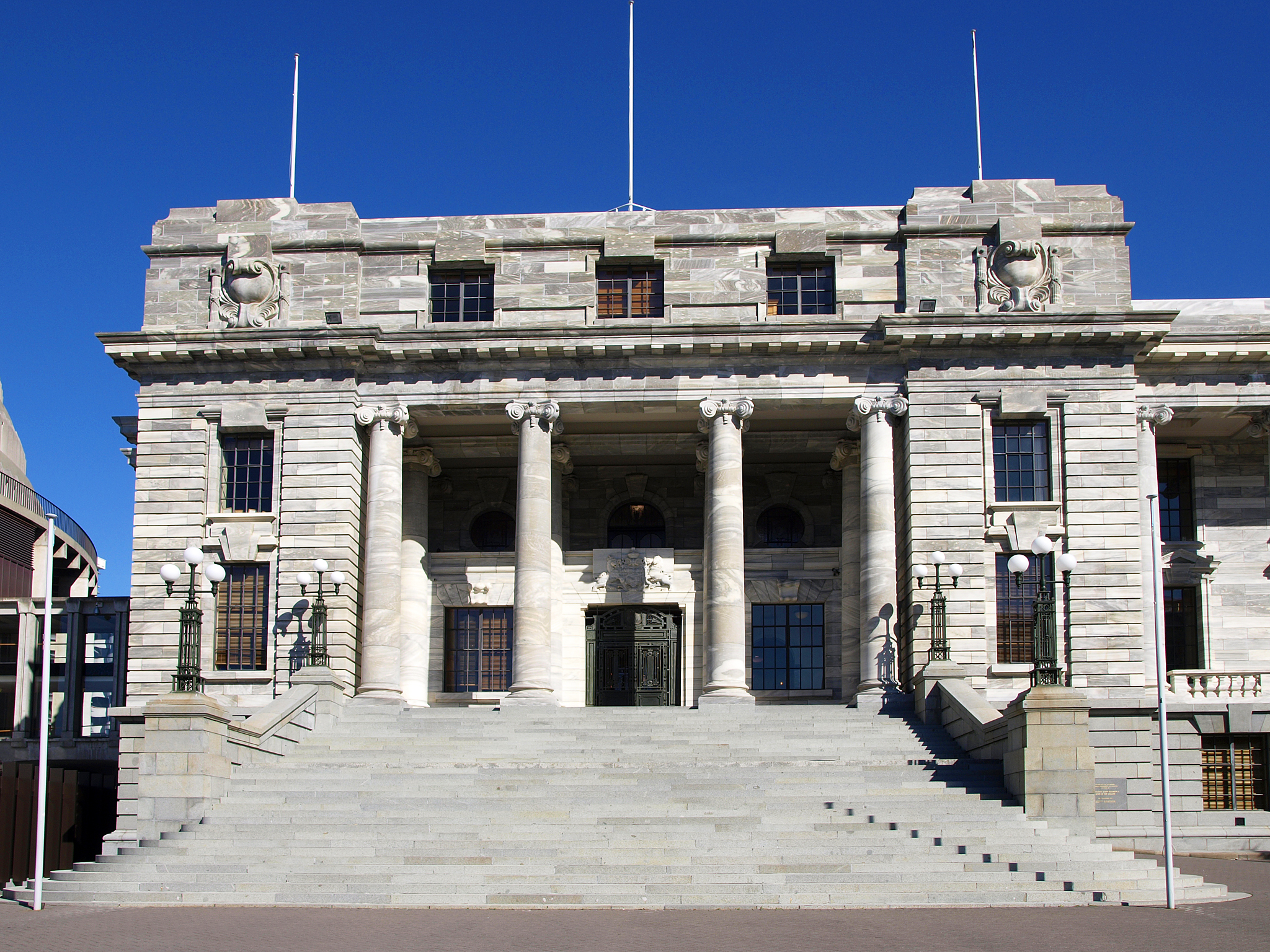 Entrance of Parliament House, Wellington, New Zealand